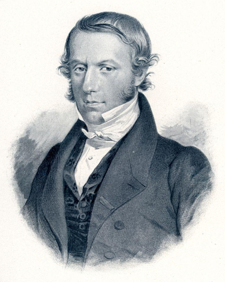 Gabriel Andral (6 November 1797 – 13 February 1876) was a distinguished French pathologist and a professor at the University of Paris.